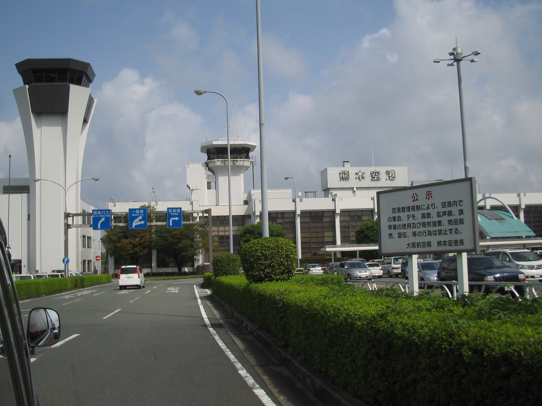 Kumamoto (KMJ) Airport Entrance circa 2007